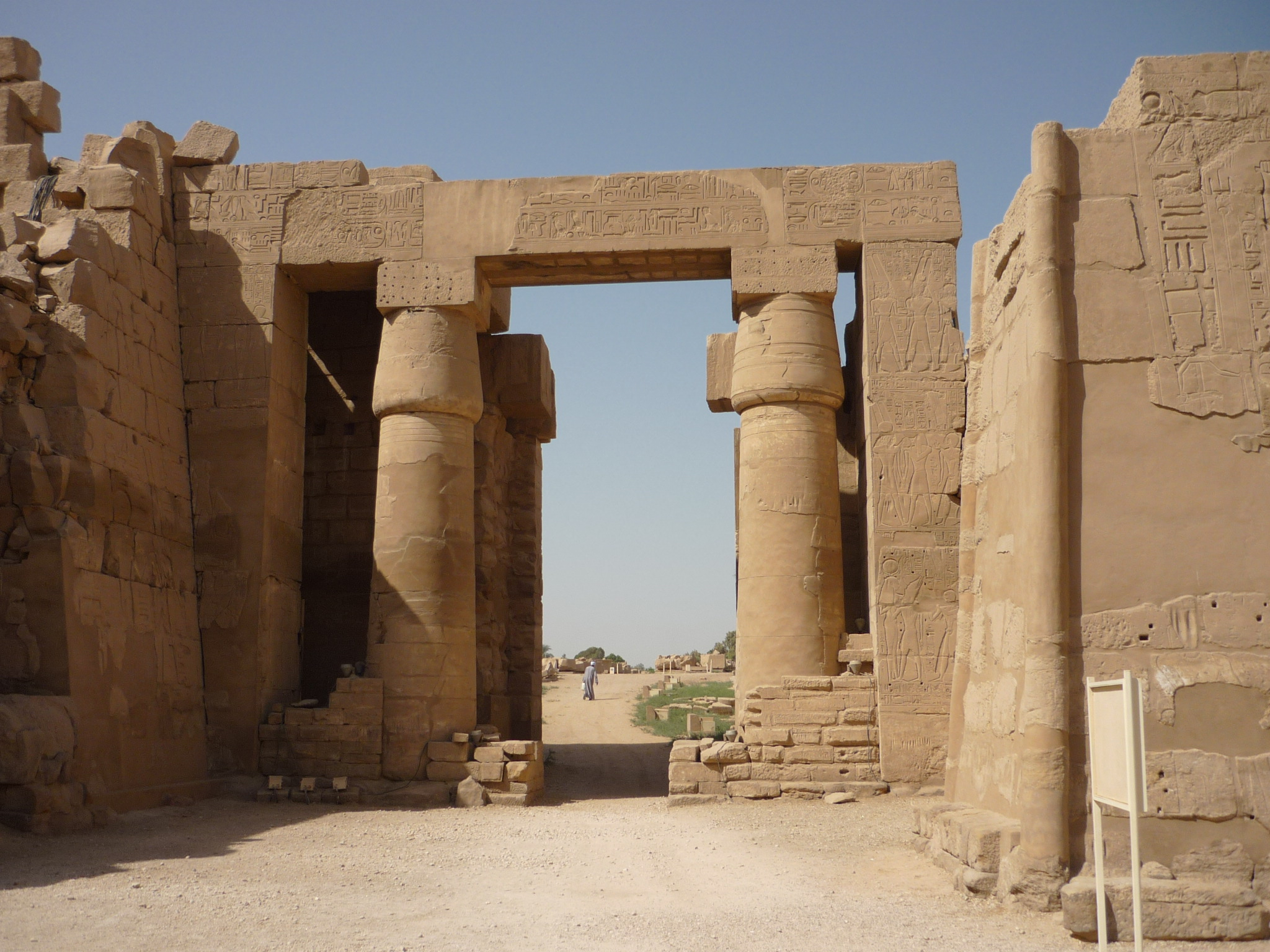 South gate of great forecourt, Karnak temple of Amun-Ra, Egypt. (Bubastis portal at Karnak by Shoshenq I.